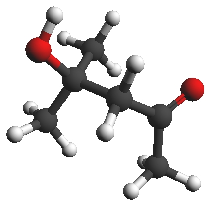 Diacetone alcohol molecule made with Arguslab.